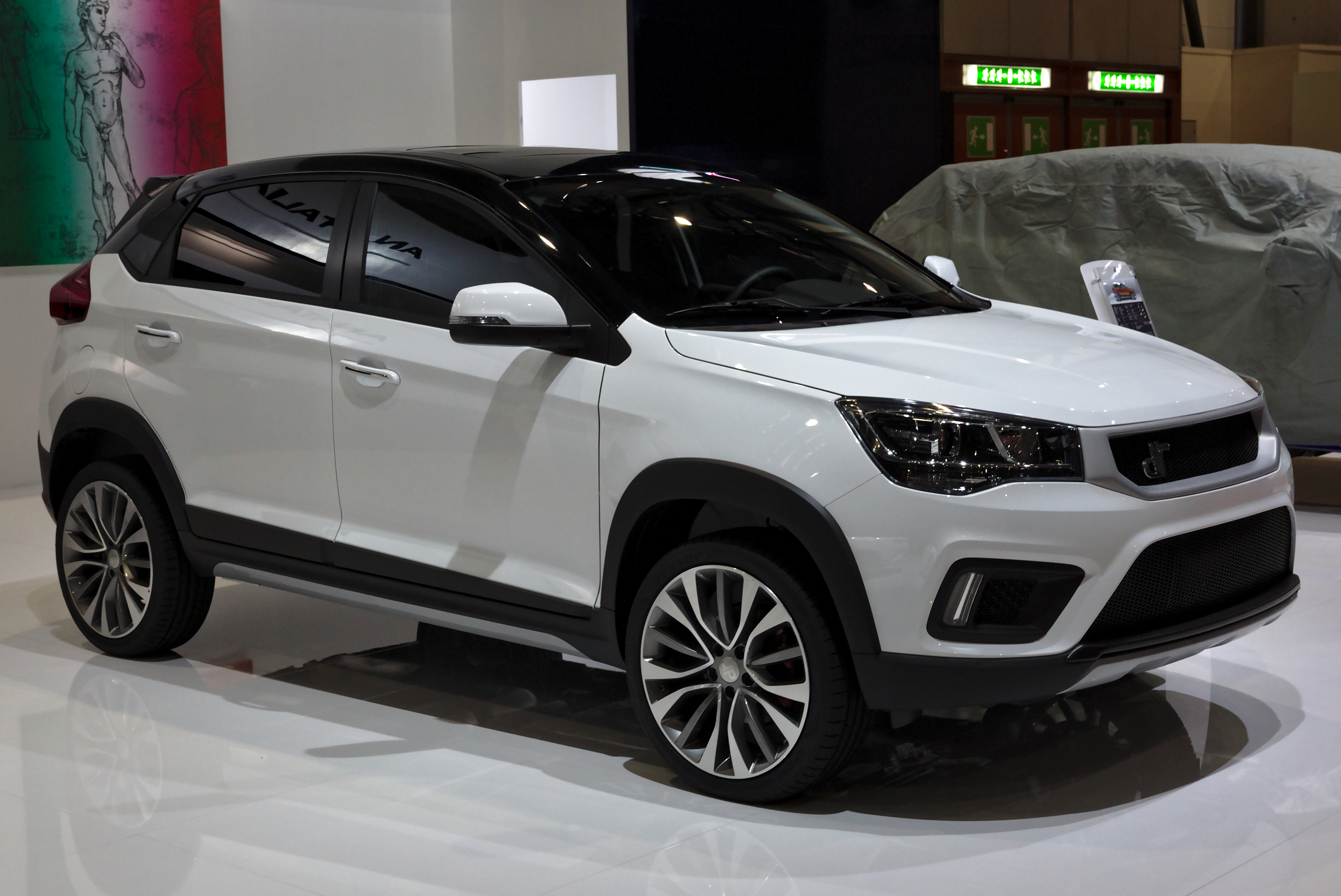 DR3 at Geneva Motor Show 2019